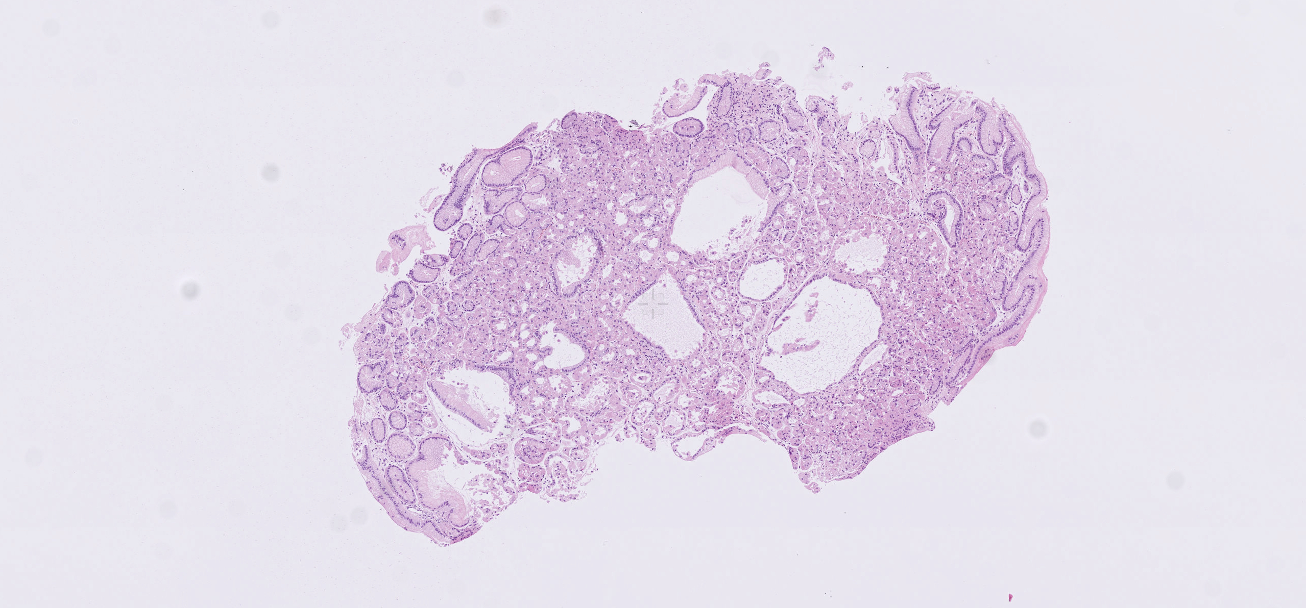 Histopathologic image of fundic gland polyp obtained by endoscopic gastric biopsy. Photographed by CCD camera through Olympus microscope, then modified by auto-contrast function in Adobe software.